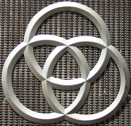 Drei Ringe von Krupp Quelle: eigenes Foto PD weil nicht ausreichende Schöpfungshöhe, evtl. sogar PD wegen alter! Evtl. auch ohnehin PD wegen Panoramafreiheit (würde auch ausreichen), bitte kurz vermerken, wenn das der Fall ist (etwa bei einem fest angebrachten Firmenschild). Used on de.wikipedia five times. :PLs DON´T cancel this very photograph. Why cancel this?? Let it on the disks, pls. Panorama free. Hundreds of old trucks are still available - in their huts. Cancellation is useless and causes double or triple work - for nothing.